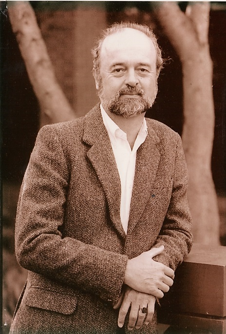 Professor Emeritus, Odum School of Ecology- University of Georgia, Athens, GA. U.S,A